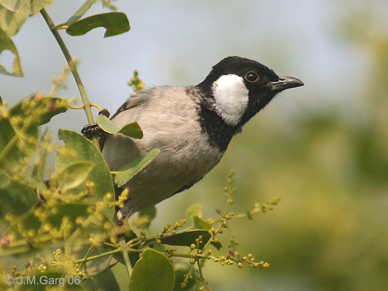 White-eared Bulbul Pycnonotus leucotis in Kolkata, West Bengal, India.